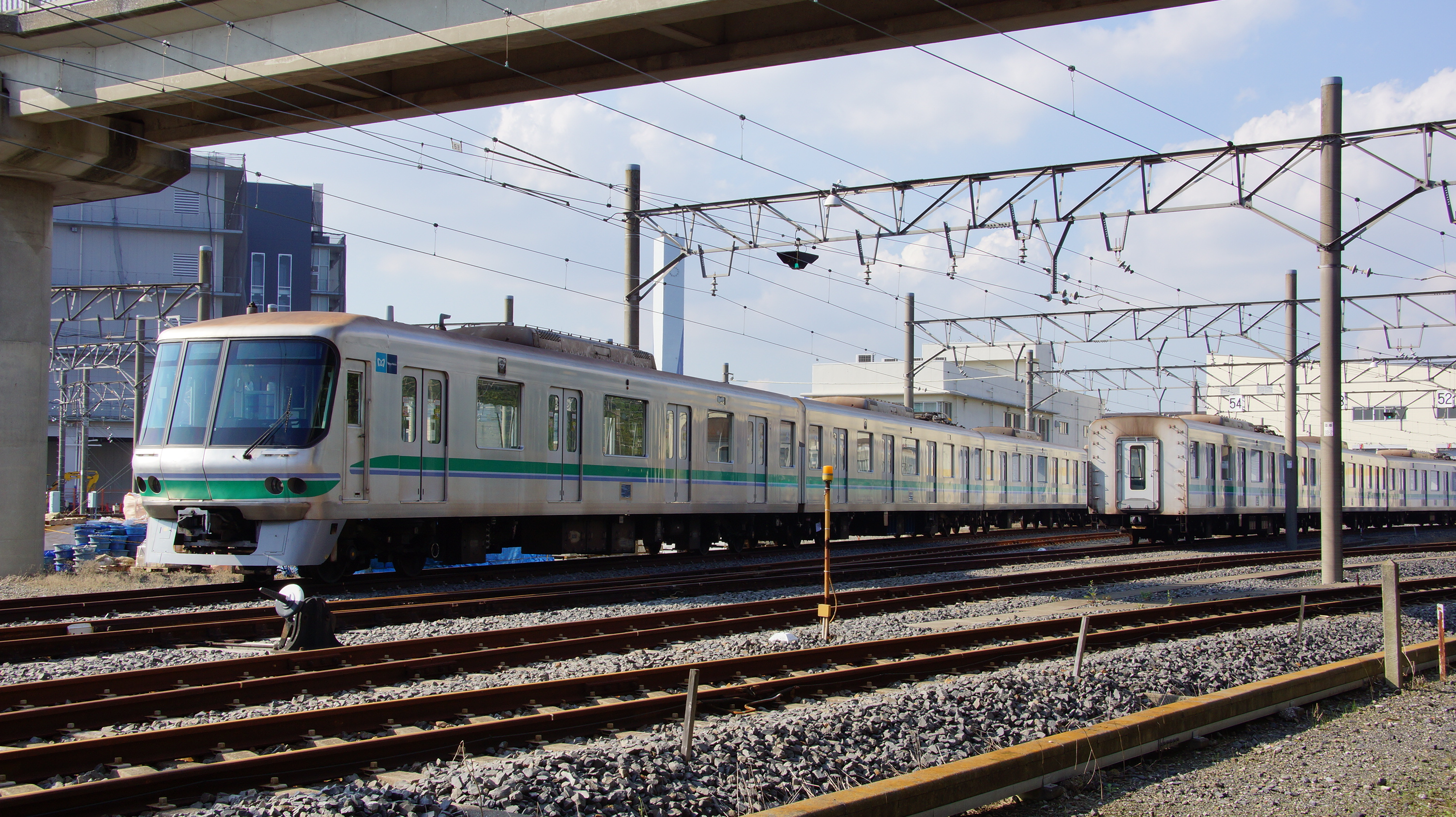 The Tokyo Metro 06 series EMU set at Shinkiba Depot in Tokyo, awaiting scrapping. The train had been split into two sections, and had its number plates cut out.